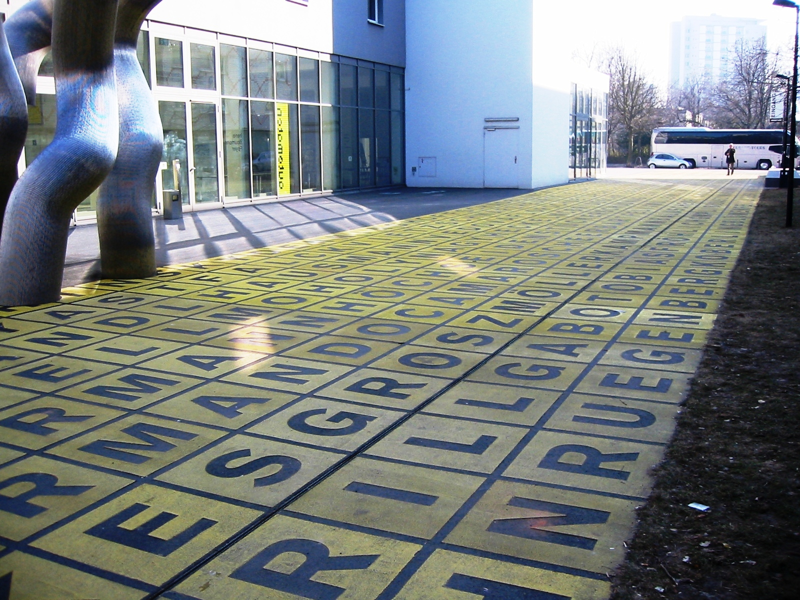 Art "marking glass storage" of the German architect Kuehn Malvezzi before the Berlin Galerie in Berlin-Kreuzberg (Germany)